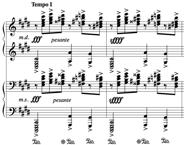 Rachmaninoff's Prelude in C-sharp minor, Op. 3, No. 2; the recapitulation of the theme, in four staves